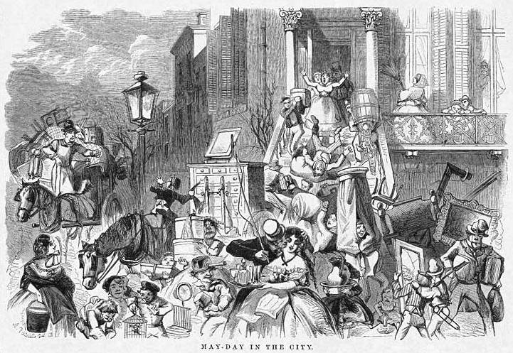 Cartoon depicting Moving Day (May 1) in New York City in 1859